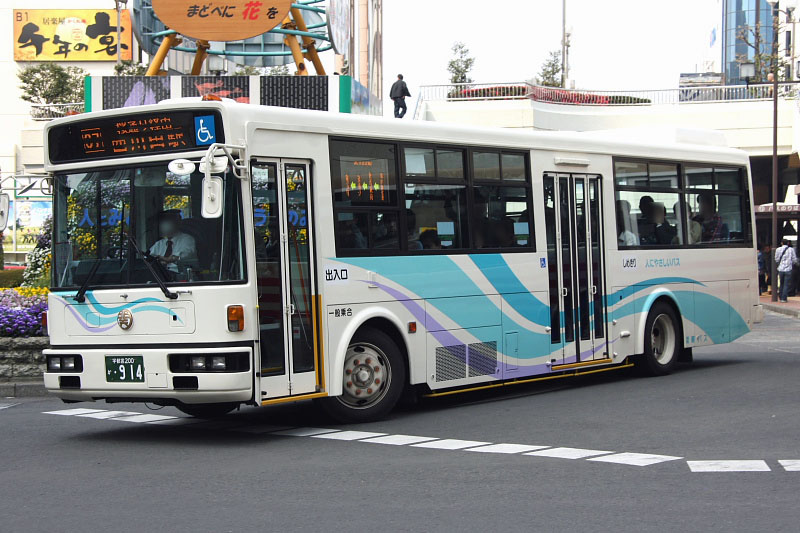 Kanto Jidosha (Tochigi)'s route bus (Nissan Diesel JP U-JP211NTN / NSK body / formerly owned by Keio Bus) at Utsunomiya Station West Exit, Utsunomiya, Tochigi, Japan.